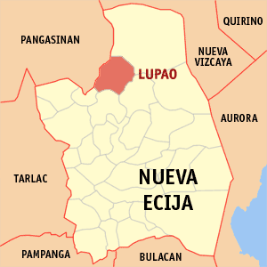 Map of Nueva Ecija showing the location of Lupao